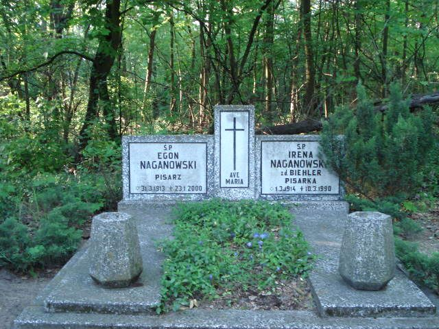 Gravestone of the Polish writer Egon Naganowski (d. 2000) at the Miłostowo Cemetery in Poznań, Evangelical part